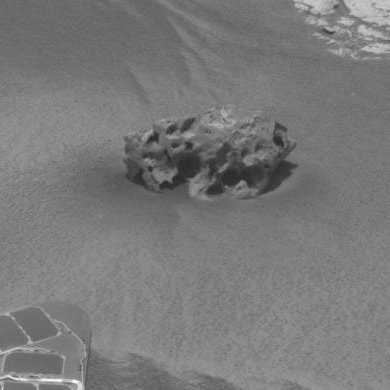 Opportunity Finds Another Meteorite10.02.09 A meteorite recently discovered by Opportunity NASA's Mars Exploration Rover Opportunity has found a rock that apparently is another meteorite, less than three weeks after driving away from a larger meteorite that the rover examined for six weeks. Opportunity used its navigation camera during the mission's 2,022nd Martian day, or sol, (Oct. 1, 2009) to take this image of the apparent meteorite dubbed "Shelter Island." The pitted rock is about 47 centimeters (18.5 inches) long. Opportunity had driven 28.5 meters (94 feet) that sol to approach the rock after it had been detected in images taken after a drive two sols earlier. Opportunity has driven about 700 meters (about 2,300 feet) since it finished studying the meteorite called "Block Island" on Sept. 11, 2009.